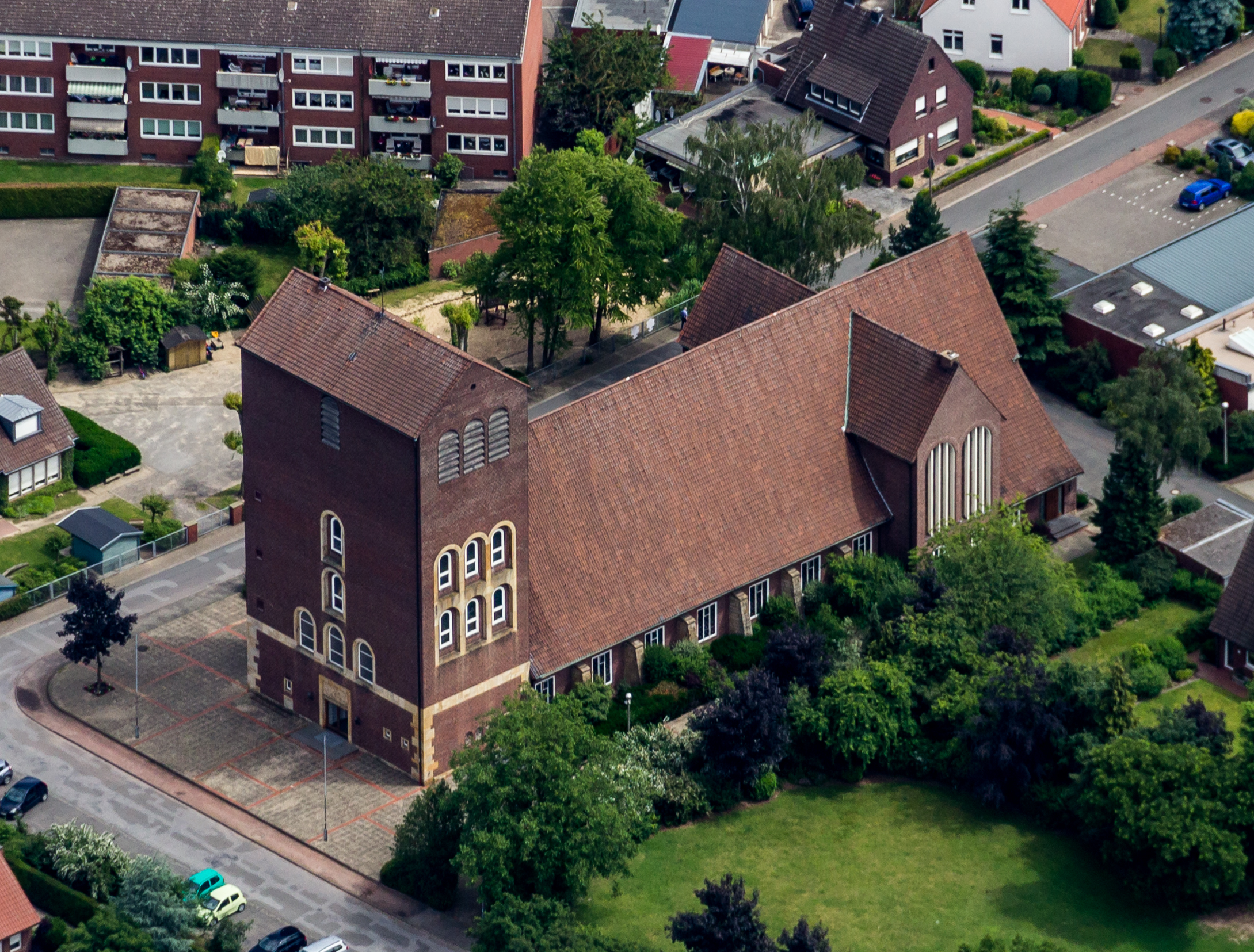 St. Joseph Church, Greven, North Rhine-Westphalia, Germany